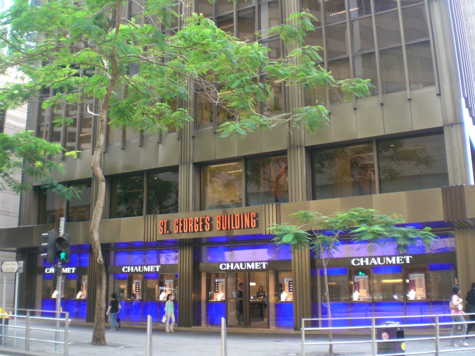 聖佐治大廈(St George's Building)，是香港中區甲級商業大廈。它位於中環遮打遁。 CHAUMET 是一家法國珠寶品牌創始於1780年 Author= Saiyans16